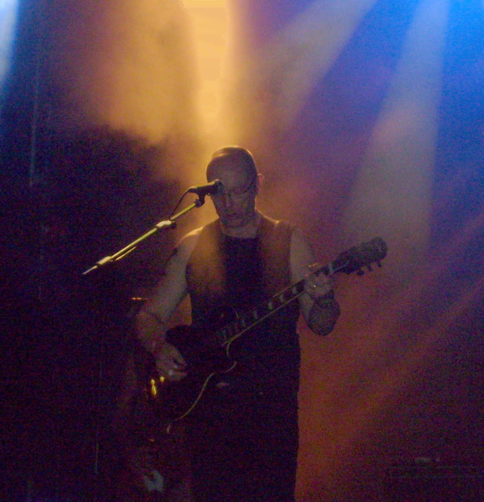 Ronnie Peterson playing live, 2007